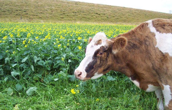 An icelandic cow eating rapeseed